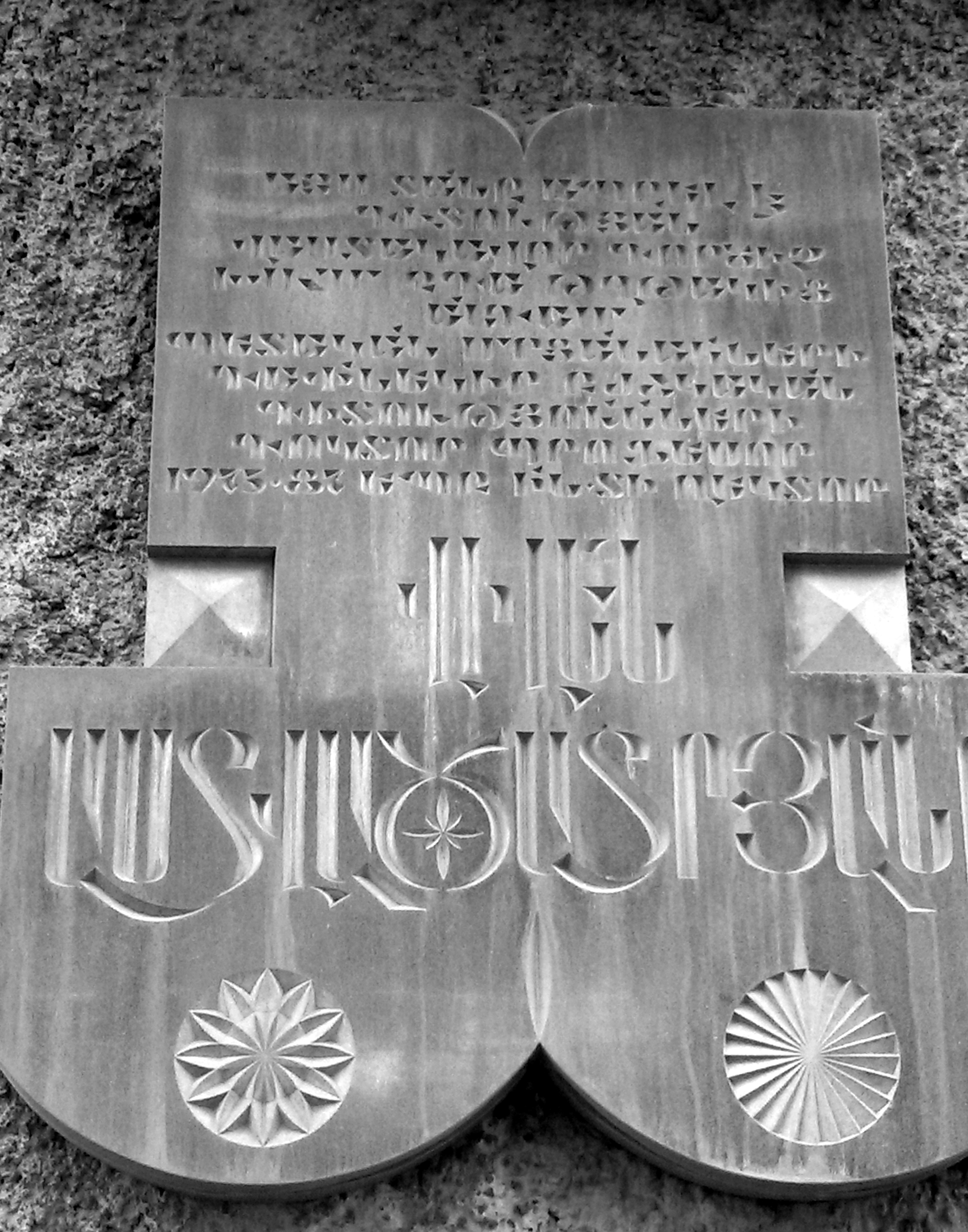 Vilen Astvatsatryan's plaque